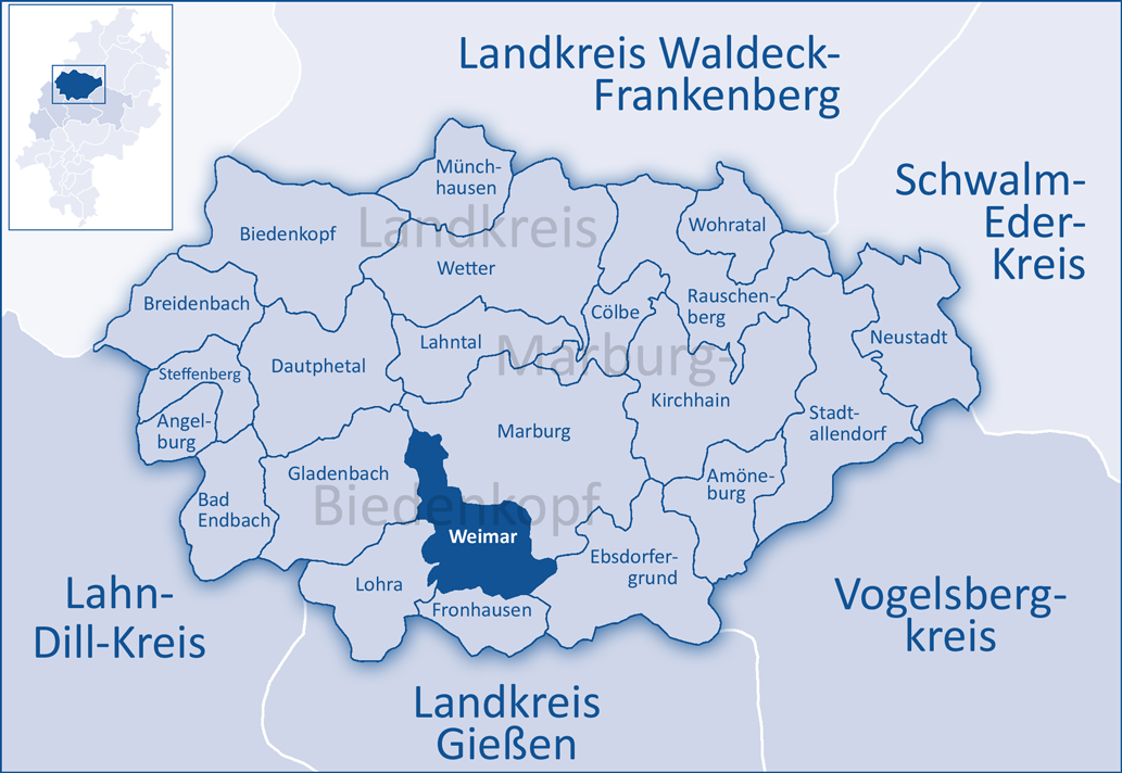 The map shows a district in the area of Marburg-Biedenkopf